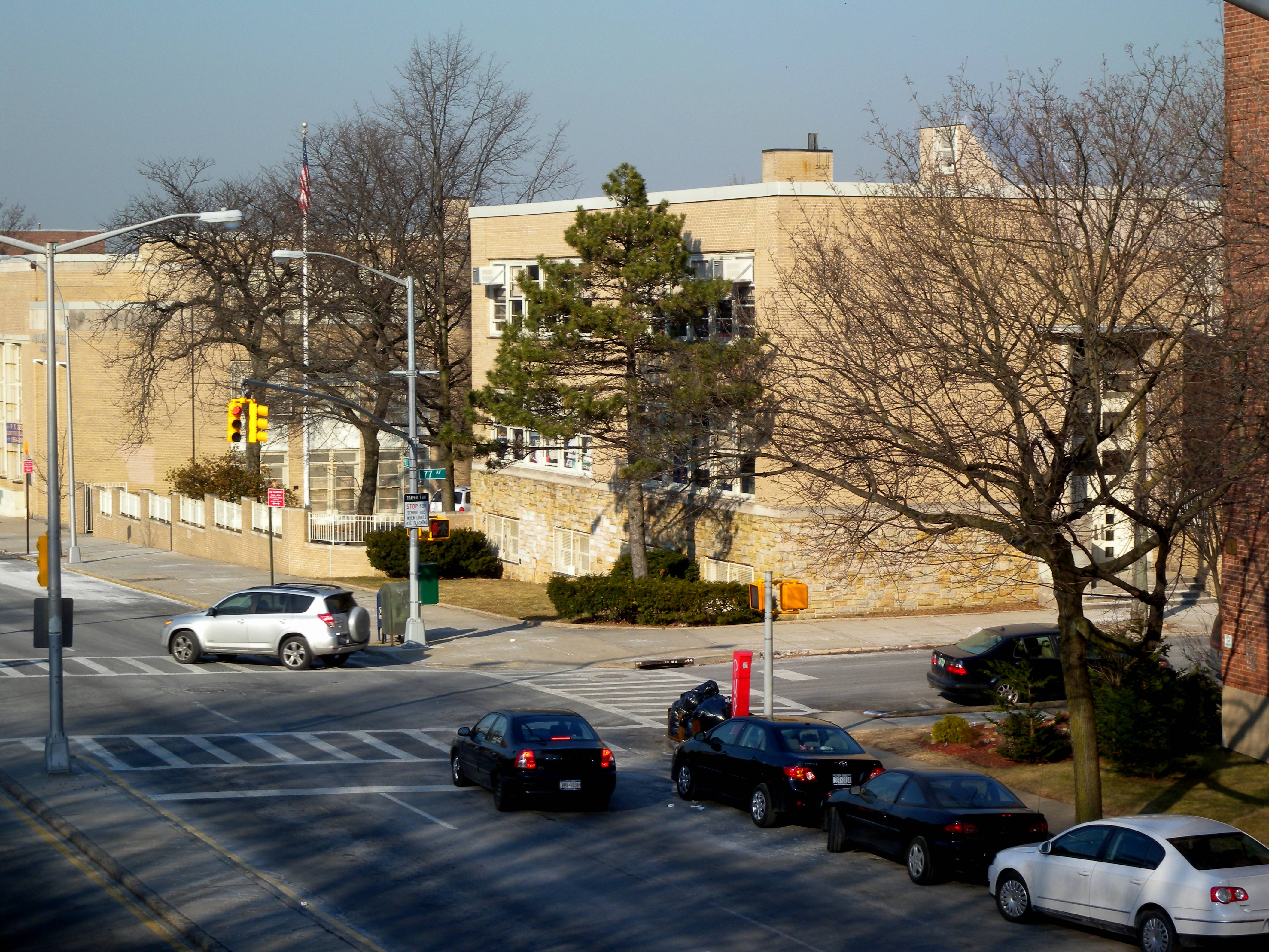 Looking north, zoomed, from VIMP along Bell Boulevard at Alexander Graham Bell School, PS 205, on a sunny afternoon.